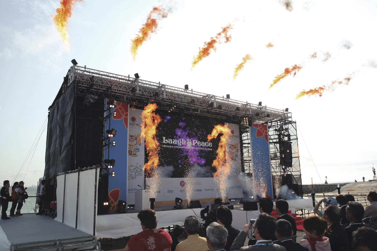 Main stage at the 1st Okinawa International Movie Festival in 2009